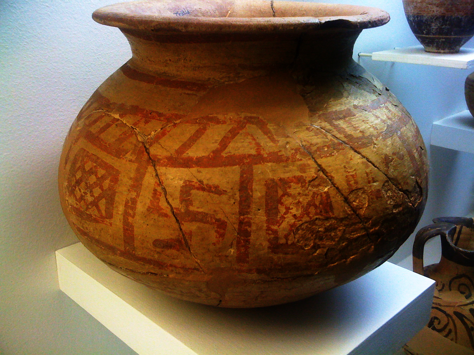 Pre-Roman Histrian pottery